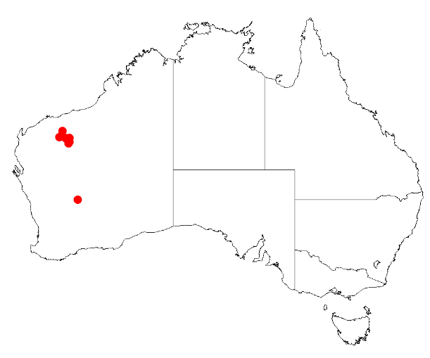 Acacia effusa Occurrence data from Australasia Virtual Herbarium downloaded from on 8 December 2018